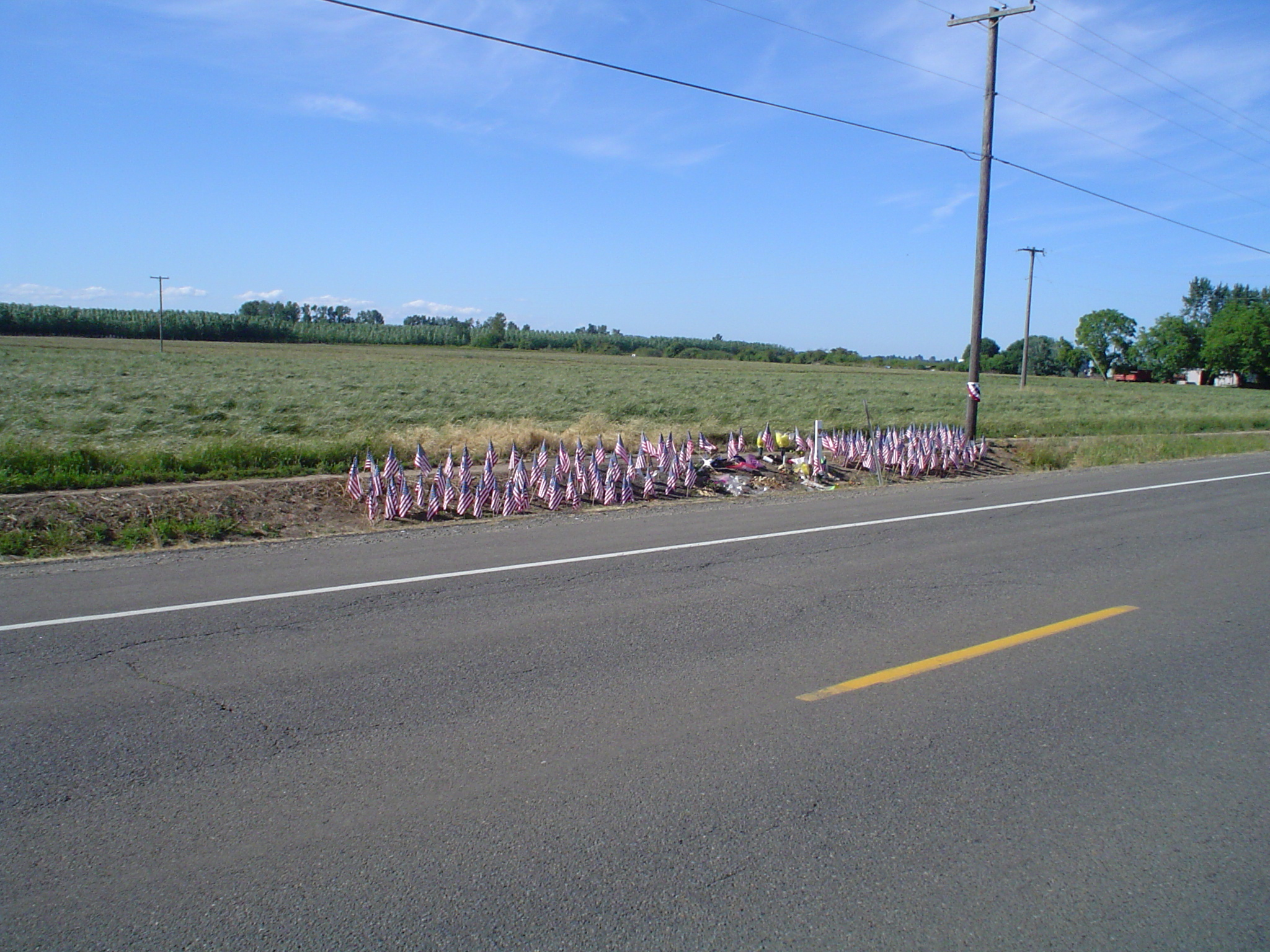 Category:Images of Gervais Fallen deputy given huge tribute in Salem Oregon deputy dies in car crash Oregon officer killed in collision Officer's lifelong goal was law enforcement Sheriff's deputy, man killed in head-on crash